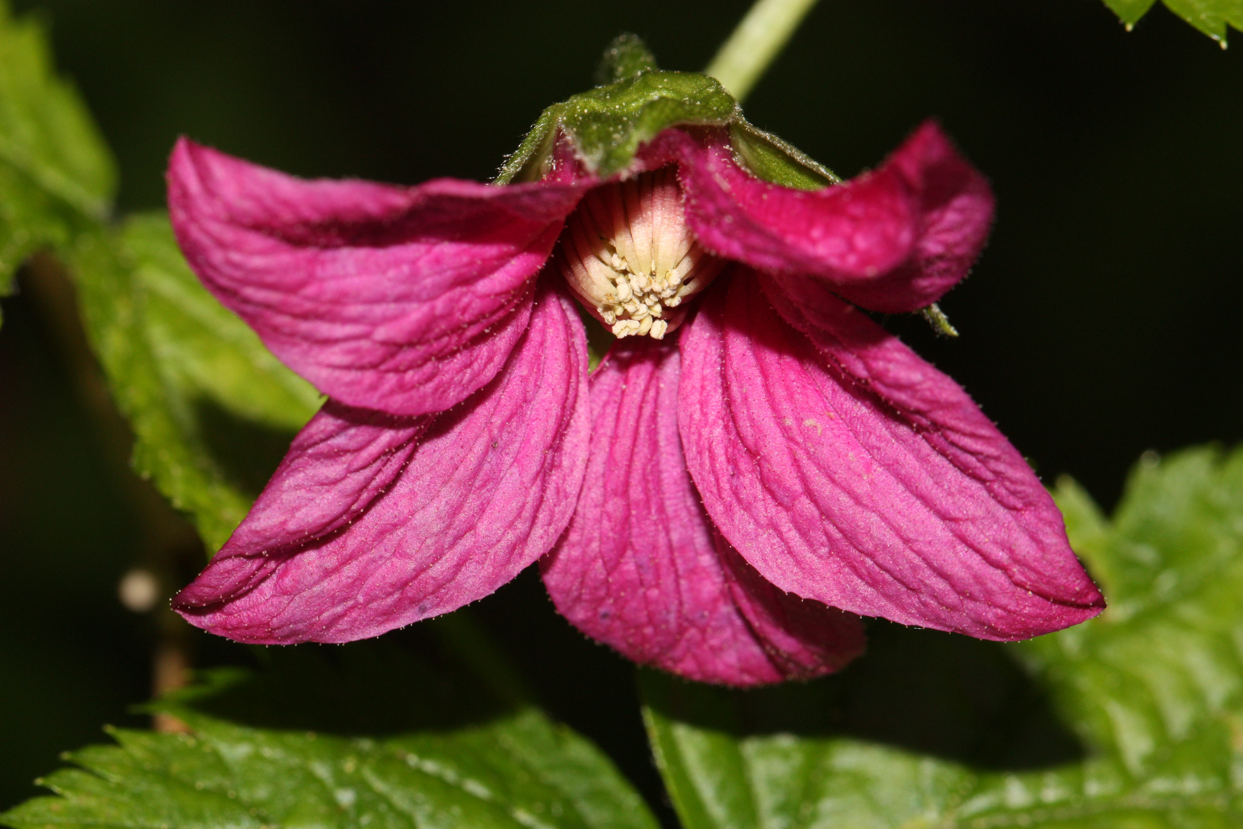 Salmonberry